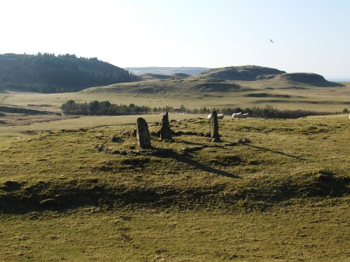 Glen Gorm Standing Stones This place and these stones were important to our ancestors, (they are about 7ft high) - but just what did they do here? We may never know and perhaps we should not, but the hill from where this picture was taken provides a great view of it!